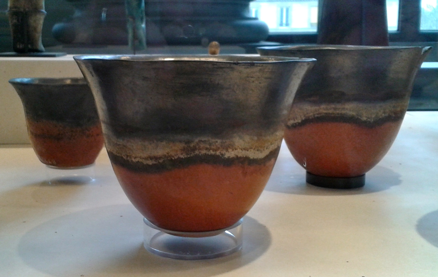 Vessels of the Kerma culture from the island of Sai, Musee du Louvre.